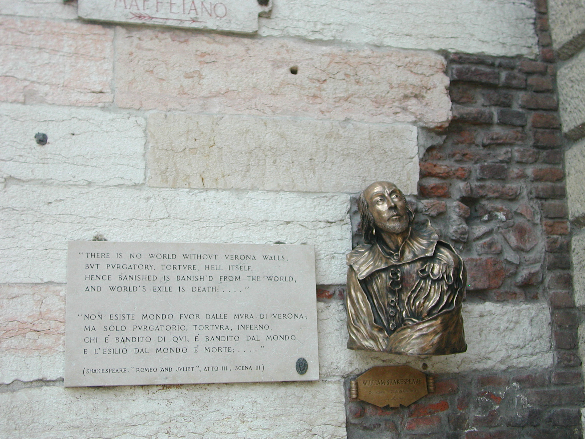 Quotation from Romeo and Juliet and a Portrait of Shakespeare on the right-side Pillar of Gates of Verona, next to the entrance to the Museo Maffeiano. Source: photo uploaded by User:RicciSpeziari. Photographer: Riccardo Speziari